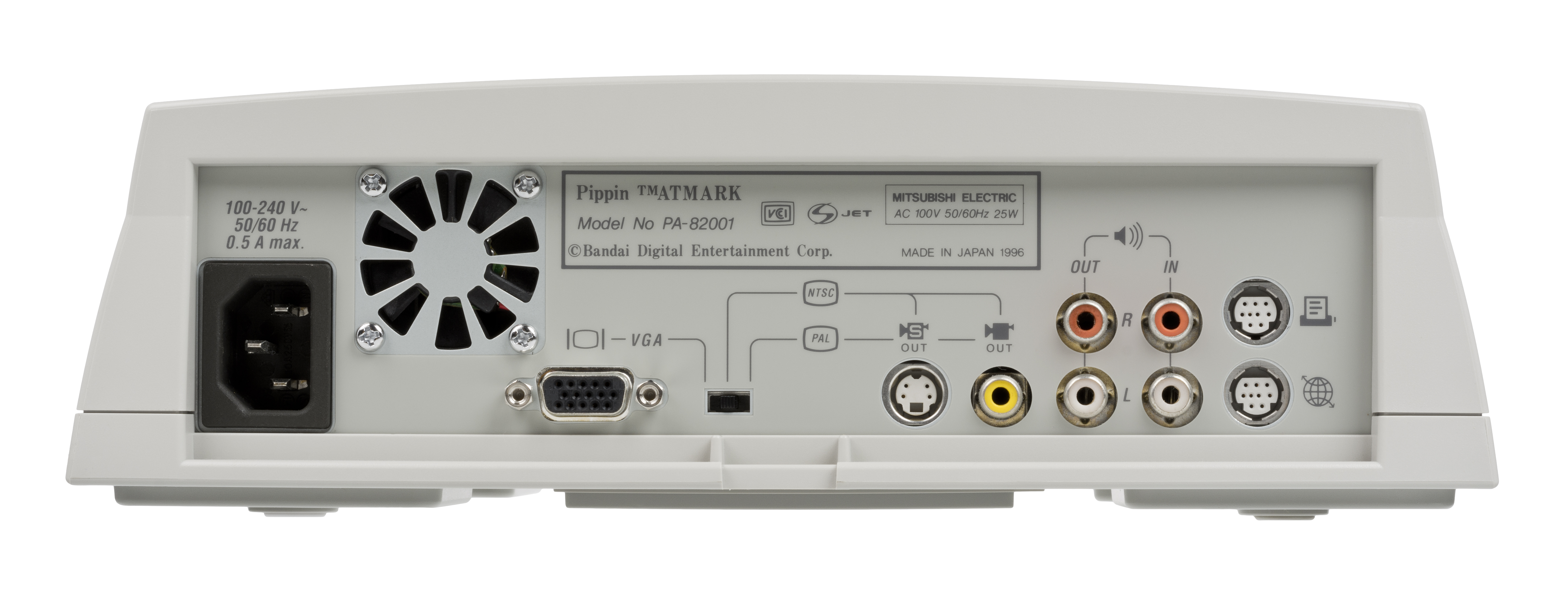 The rear of an Apple Pippin, a video game console/computer hybrid that was manufactured by Bandai and released in 1995. This is the Japanese version, the Atmark, that was colored white. The version released in America was called the @WORLD and was colored black. The system was based on the Apple Macintosh computer that was streamlined and focused for playing CD-ROM games.